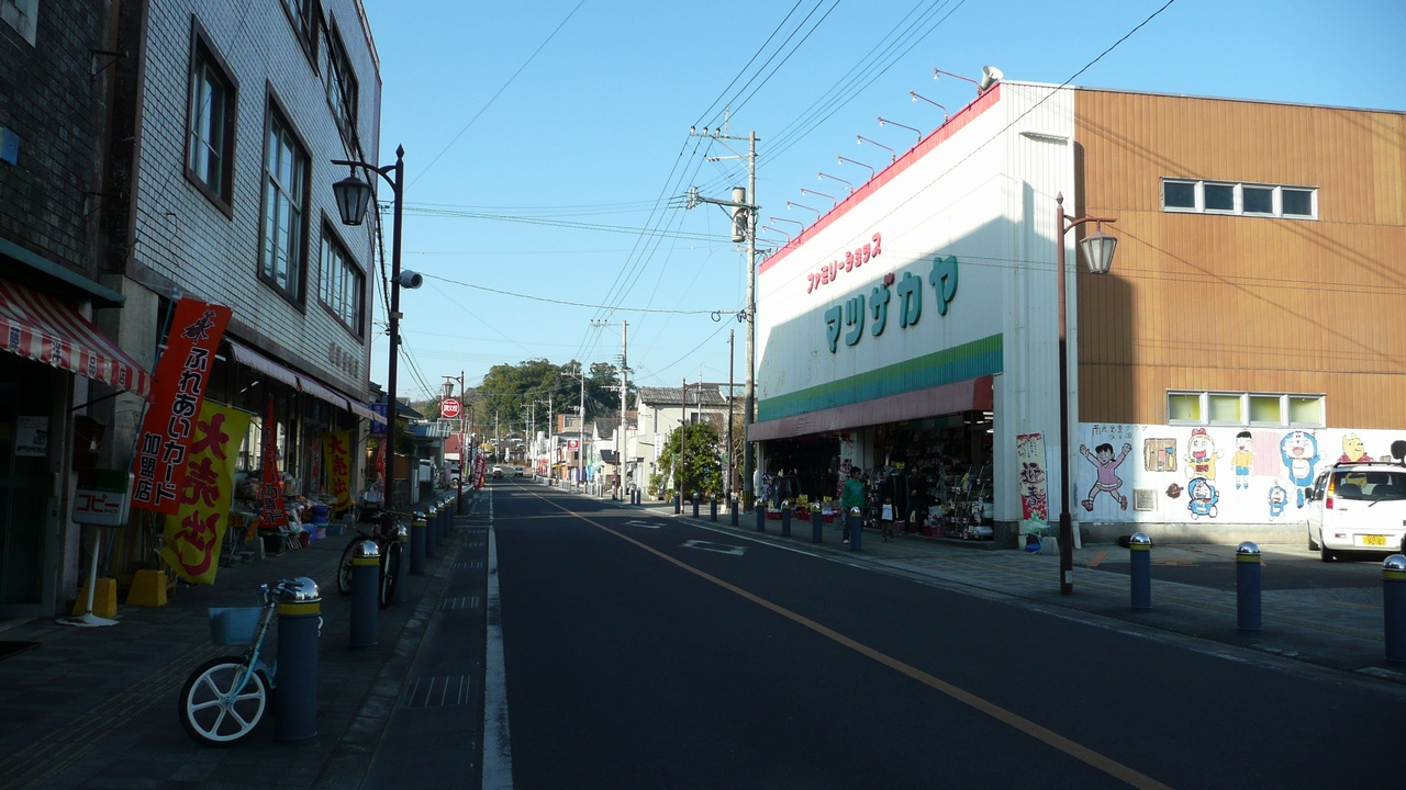 Kagoshima Prefectural Road 64 Osaki-Kihoku Line (Osaki Town, Japan)